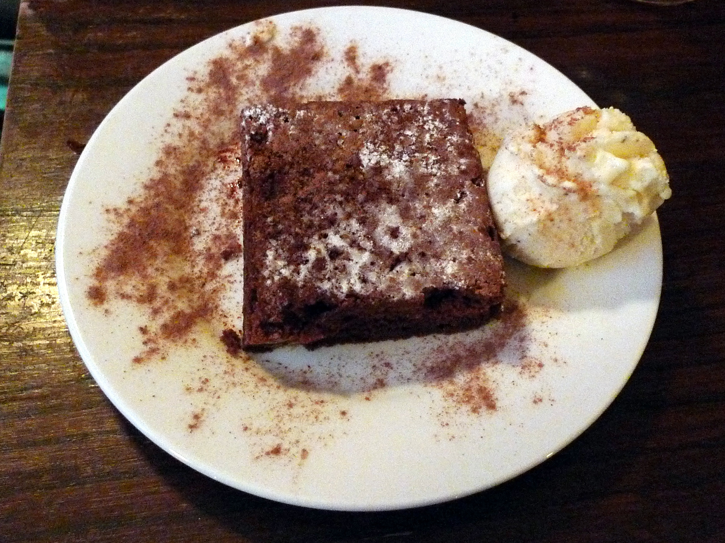 A tasty, warm, nutty chocolate brownie with a scoop of icecream. At The Gowlett, Gowlett Road.